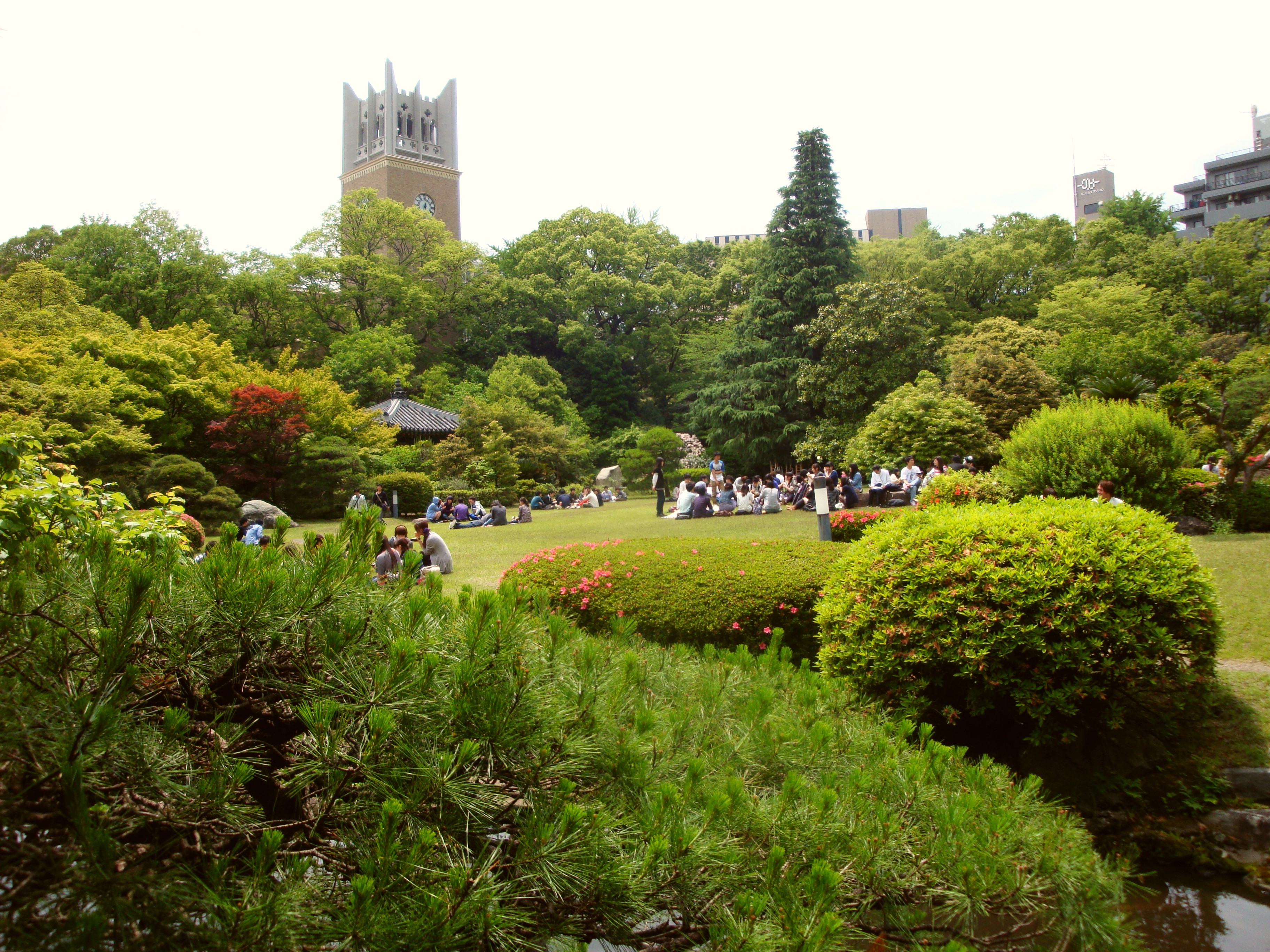 Okuma Garden. The tower of Okuma Auditorium seen from the garden.